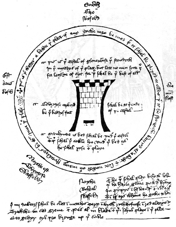 Diagram showing the mansions and playing area for the Castle of Perseverance (a Morality play). In the middle is the tower of Mankind, with the location of each of the five mansions outside the circle indicated by the text. The text inside reads: "This is the water about the place, if any ditch be made where it shall be played, or else let it be strongly barred all about."